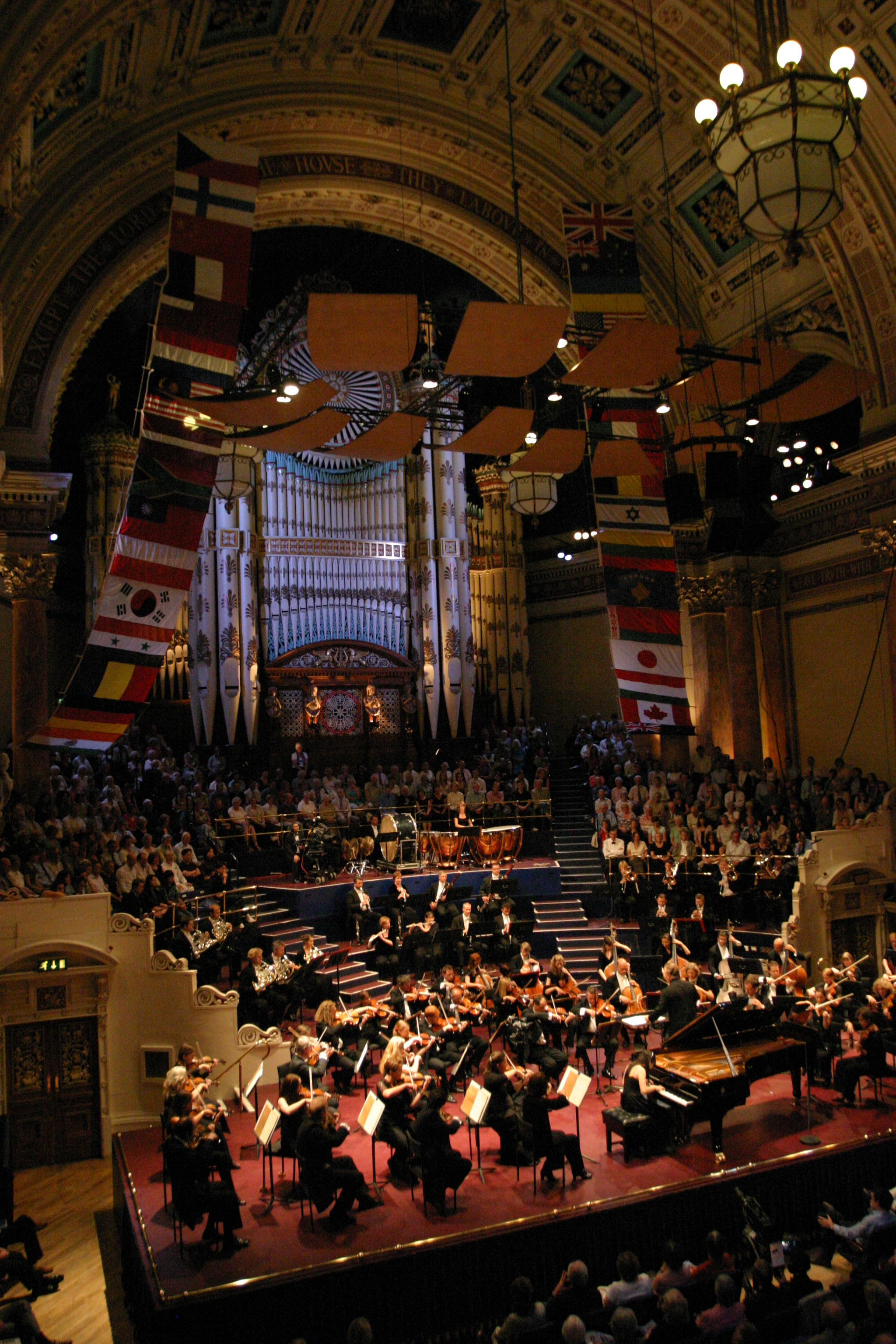 2009 Finals Leeds International Pianoforte Competition